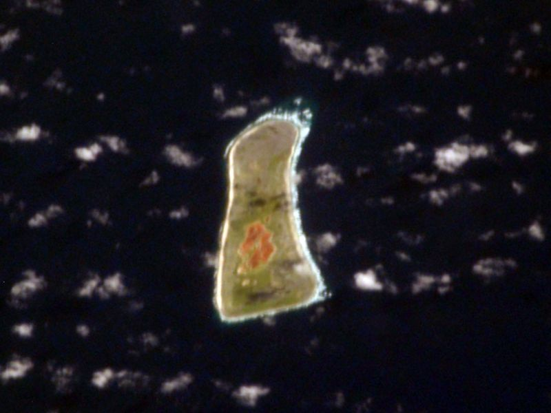 NASA astronaut image of Enderbury Island (Kiribati) in the Pacific Ocean